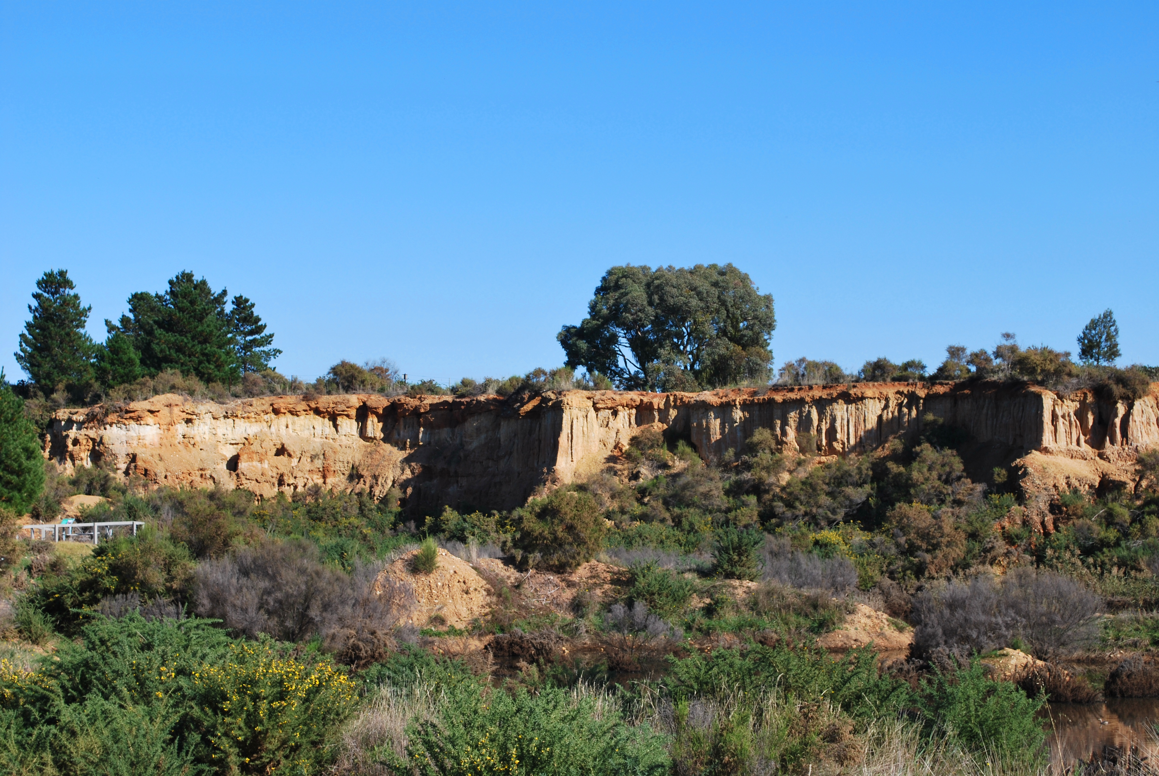 Forrest Creek diggings, part of the Castlemaine Diggings National Heritage Park